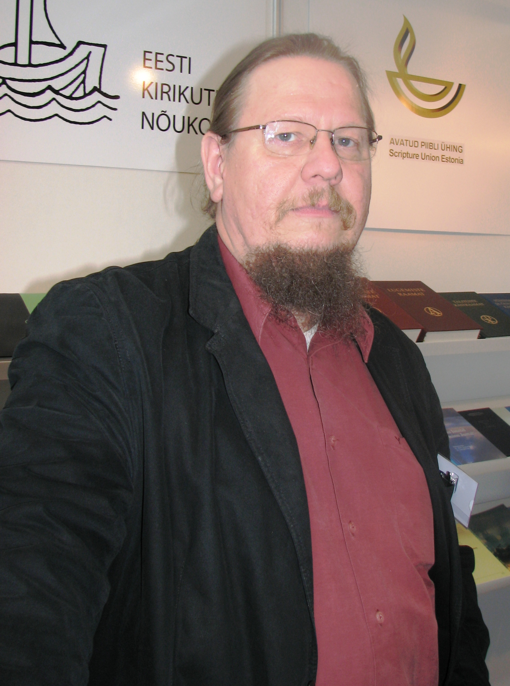 Jaan Bärenson (born 1957) is a baptist.